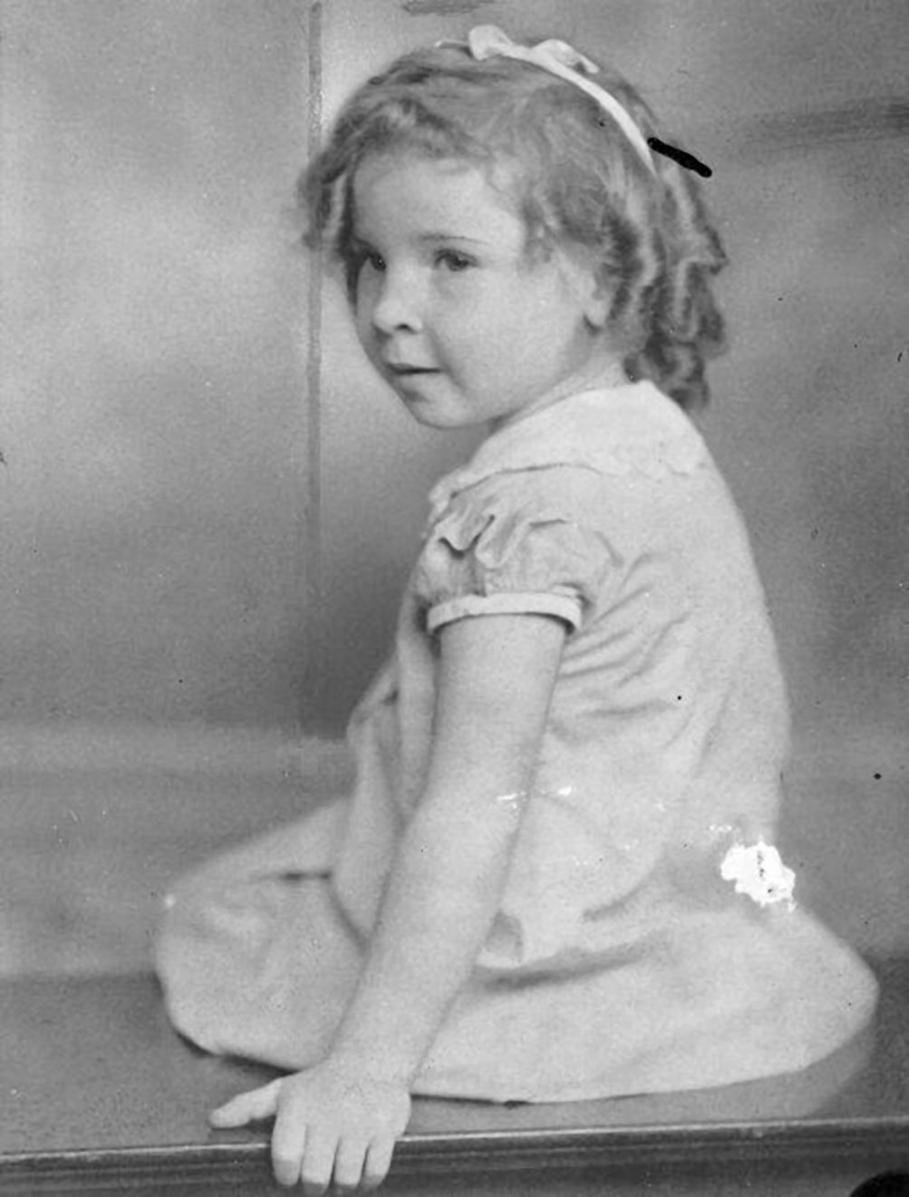 This file was originally published by the McKean County Cold Cases at